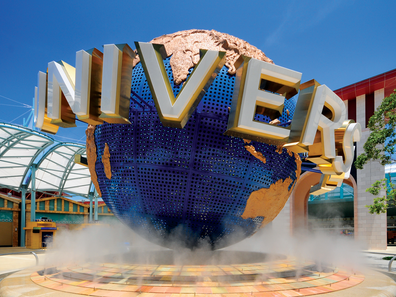 Universal Studios @ Resorts World Sentosa. from archives. View the Slideshow